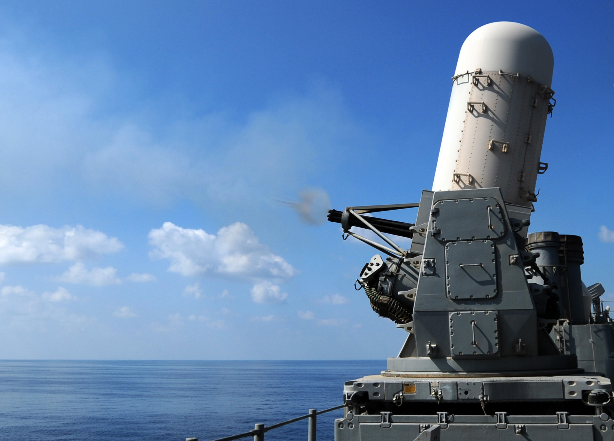 081107-N-5416W-003 GULF OF OMAN (Nov. 7, 2008) The close-in weapons system (CIWS) is test fired from the deck of the guided-missile cruiser USS Monterey (CG 61). Monterey and the Theodore Roosevelt Carrier Strike Group are conducting operations in the U.S. 5th Fleet area of responsibility. (U.S. Navy photo by Mass Communication Specialist 3rd Class William Weinert/Released)